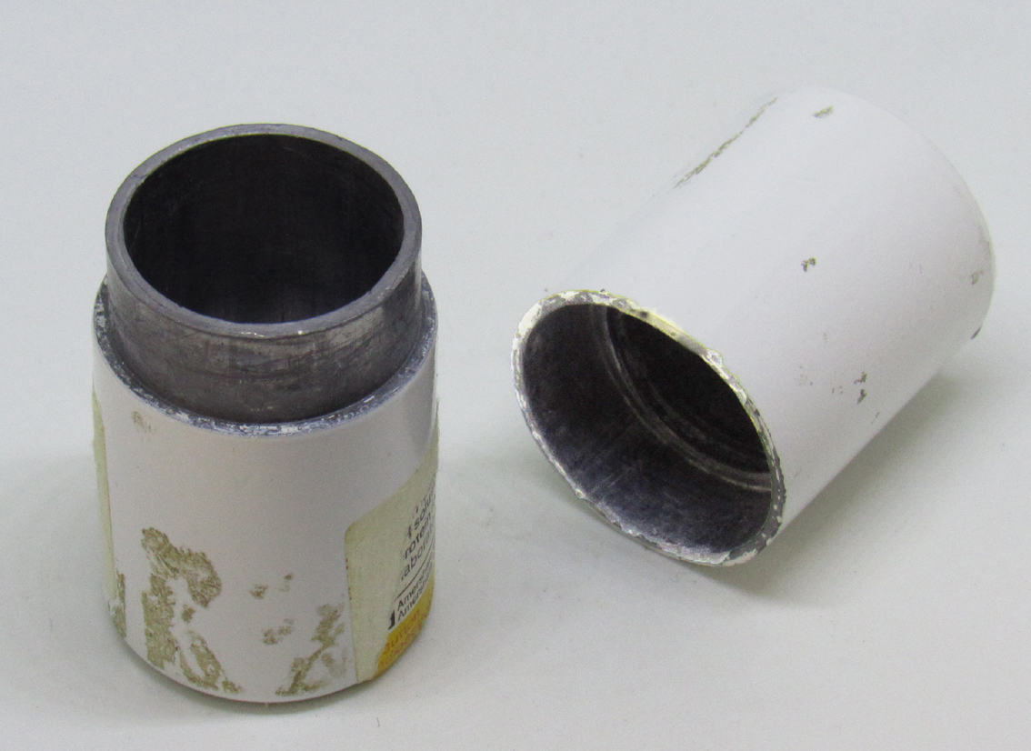 Small lead container, with its lid, to store radioactive materials in the laboratory